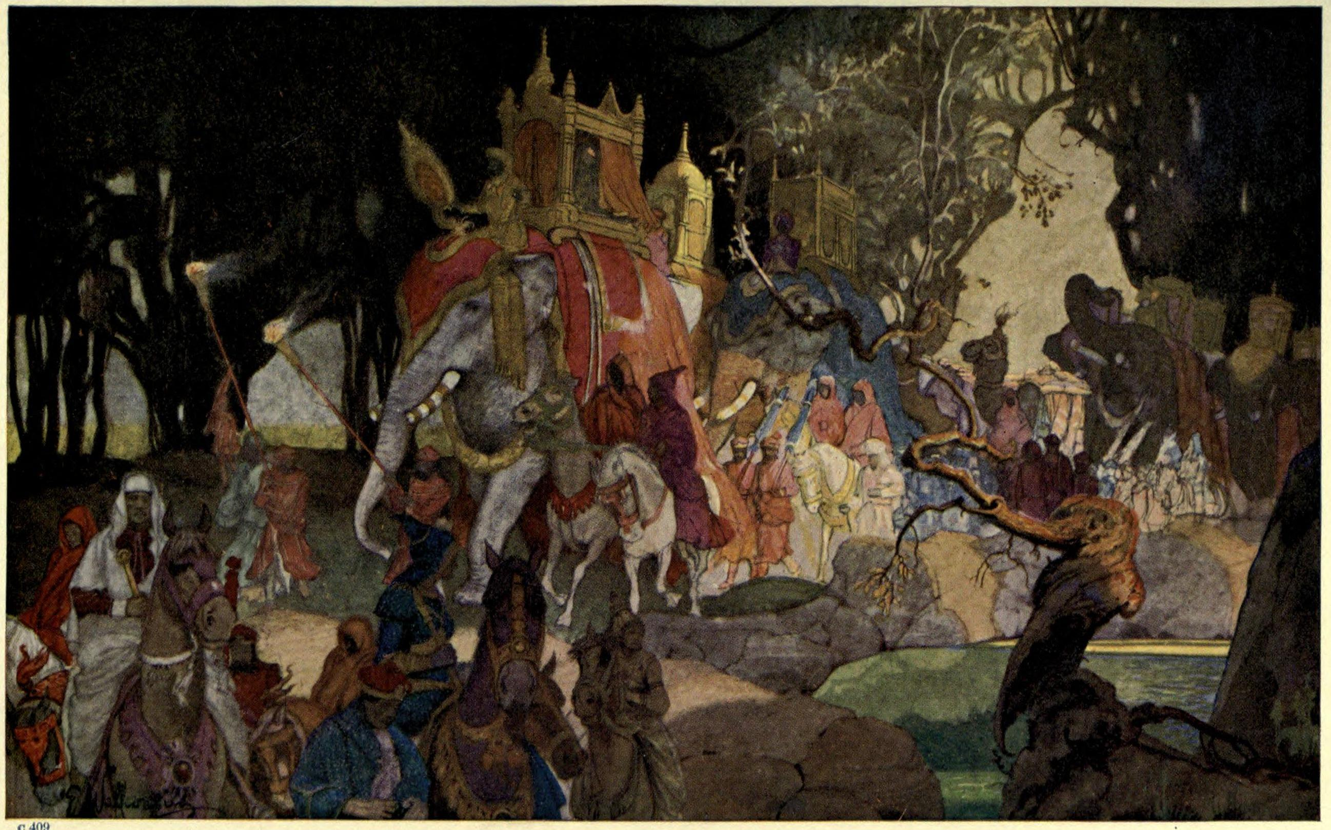 Pioneers in India by Johnston, Harry Hamilton, Sir, 1858-1927 Publication date 1913 Topics India -- Discovery and exploration, India -- History European settlements 1500-1765, India -- History British occupation, 1765-1947 Publisher London [etc.] : Blackie and son, limited Collection cdl; americana Digitizing sponsor MSN Contributor University of California Libraries Language English Bookplateleaf 4 Call number SRLF:LAGE-230522 Camera 5D Collection-library SRLF Copyright-evidence Evidence reported by alyson-wieczorek for item pioneersinindia00johniala on June 18, 2007: no visible notice of copyright; stated date is 1913. Copyright-evidence-date 20070618175118 Copyright-evidence-operator alyson-wieczorek Copyright-region US Identifier pioneersinindia00johniala Identifier-ark ark:/13960/t8bg2ks7d Identifier-bib LAGE-230522 Lcamid 1020705142 Openlibrary_edition OL7099511M Openlibrary_work OL1094605W Pages 372 Full catalog record MARCXML